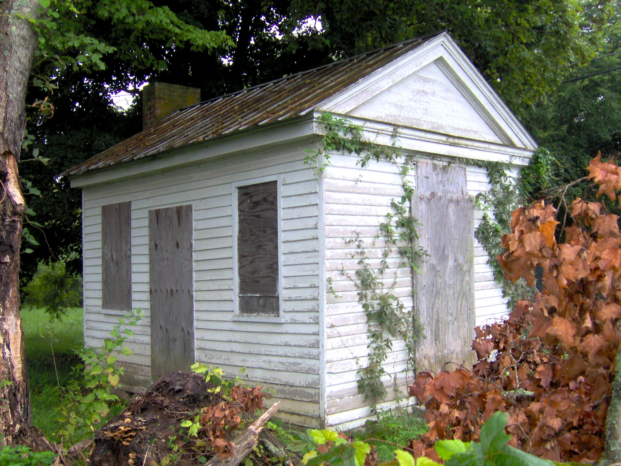 Physician's office at Rose Glen, a historic house and outbuildings near the U.S. city of Sevierville, Tennessee. This building, which along with the main house and loom house comprised part of the five-part "country villa," was used as an office by the plantation's owner, Dr. Robert Hodsden, in the 1850s.